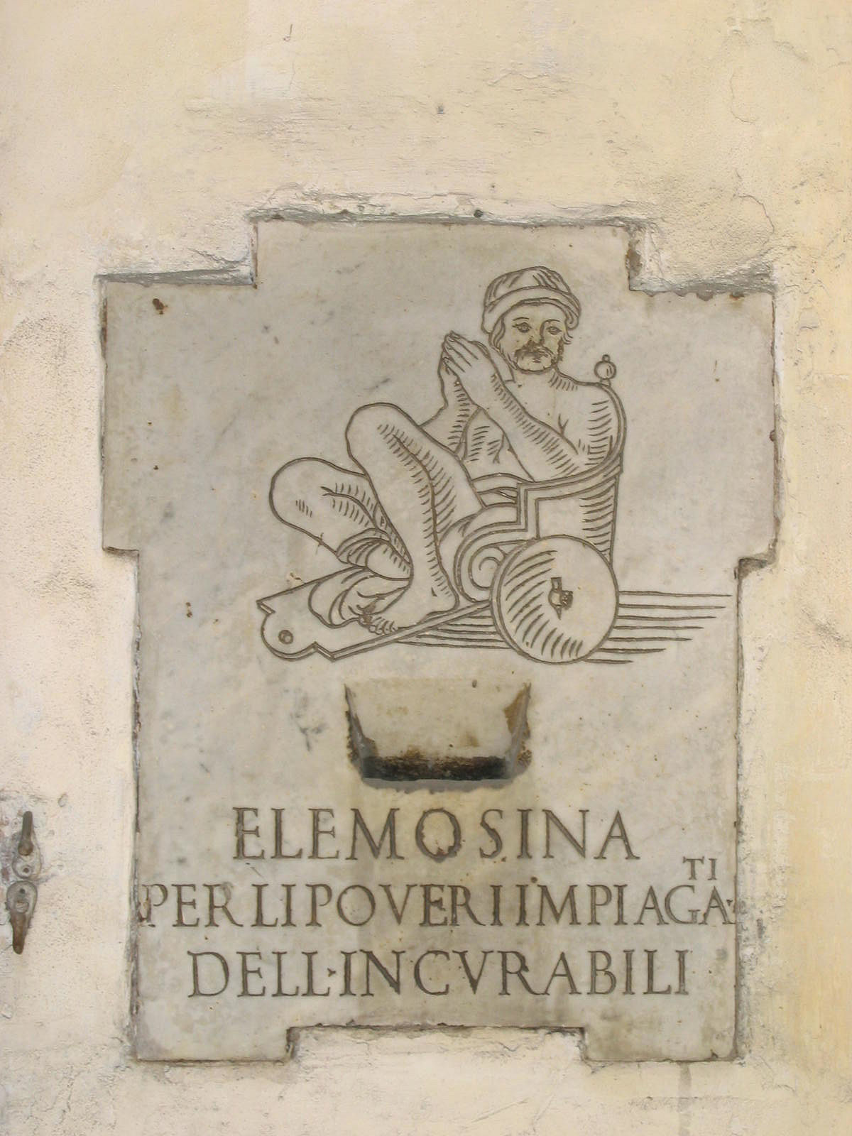 Alms-box at the church of Santa Maria in Porta Paradisi, Rome.